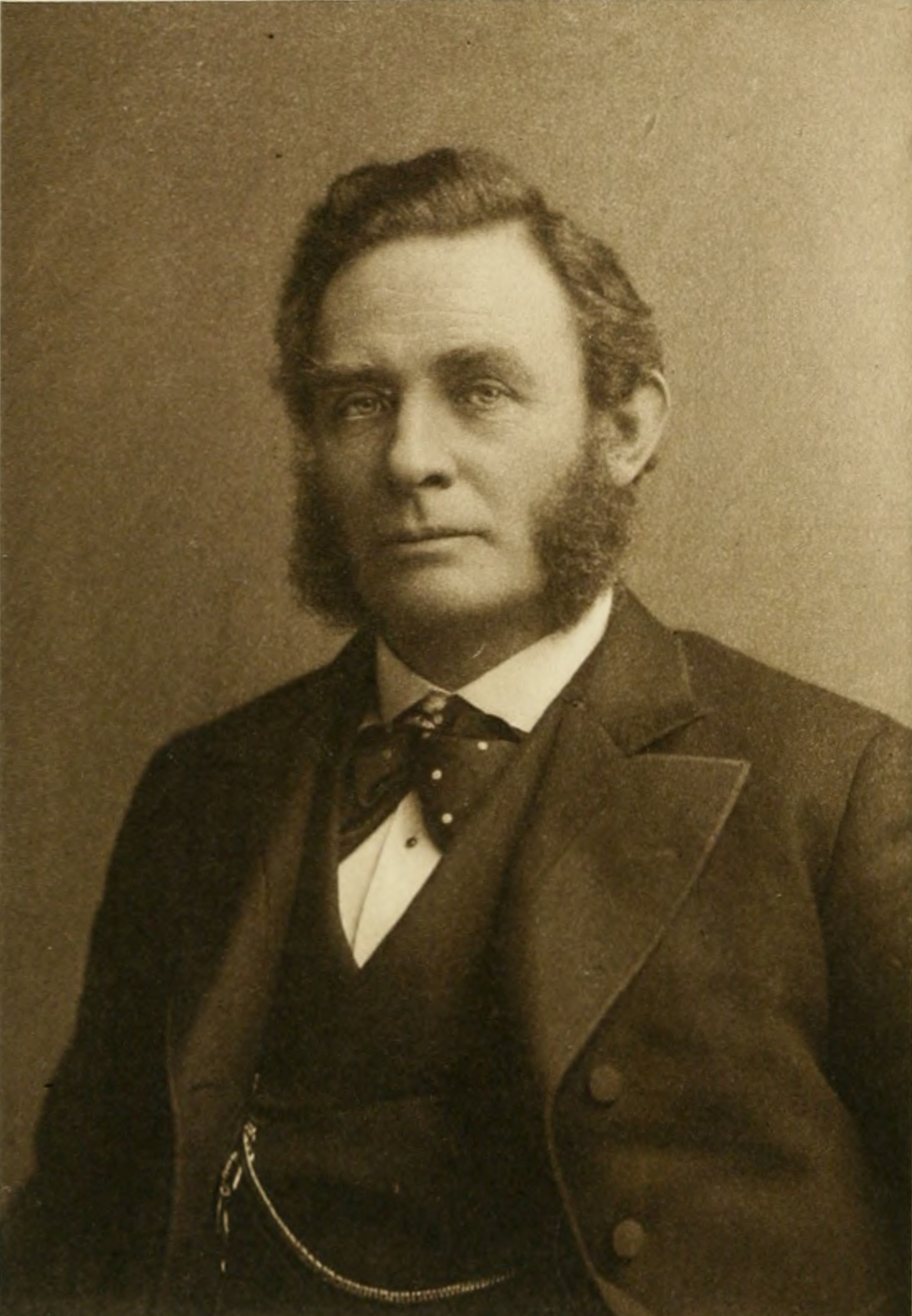 Portrait of explorer Joseph Wiggins